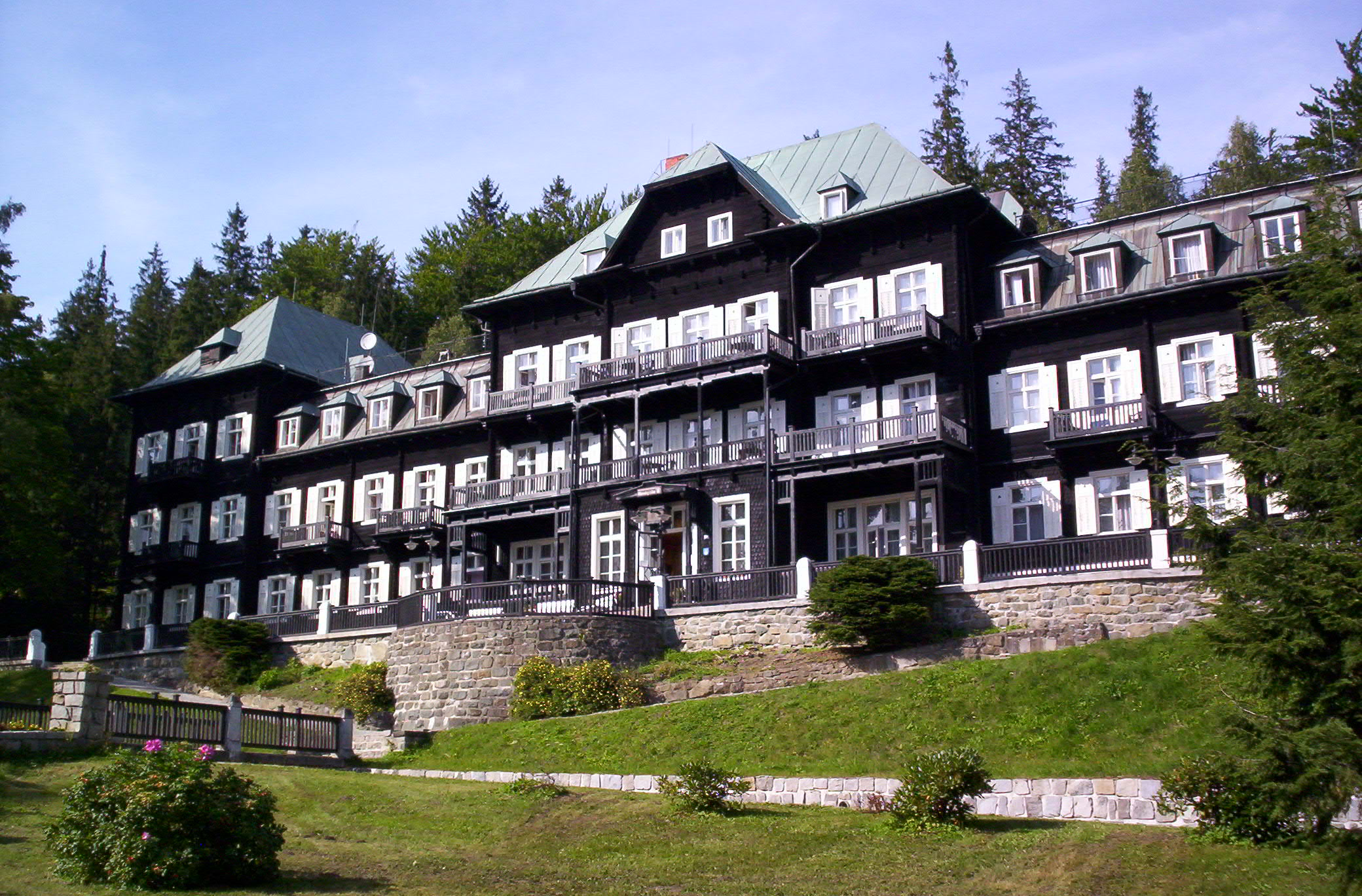 Living capacity in Karlova Studanka named Slezsky dum.